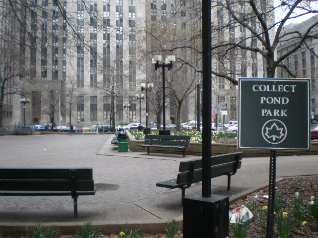 This photo is of Wikipedia Takes Manhattan location code 165, Collect Pond (Manhattan).